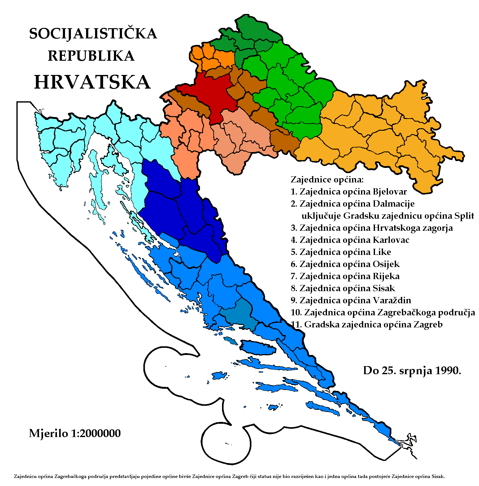 Associations of municipalities of The Socialist Republic of Croatia from 1987-01-01 to 1990-07-25 and the end of associations